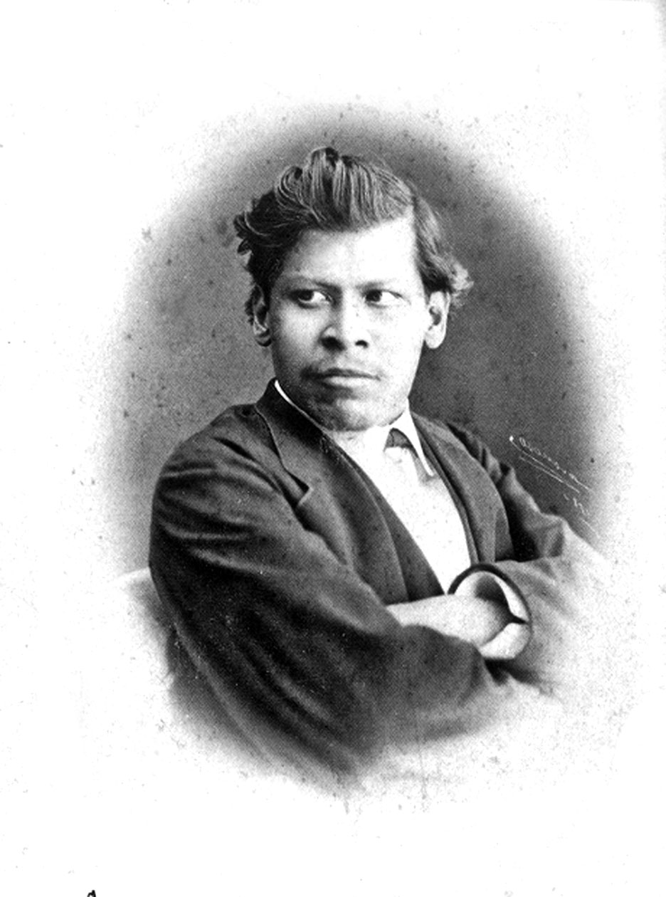 Ignacio Manuel Altamirano. Foto: Internet